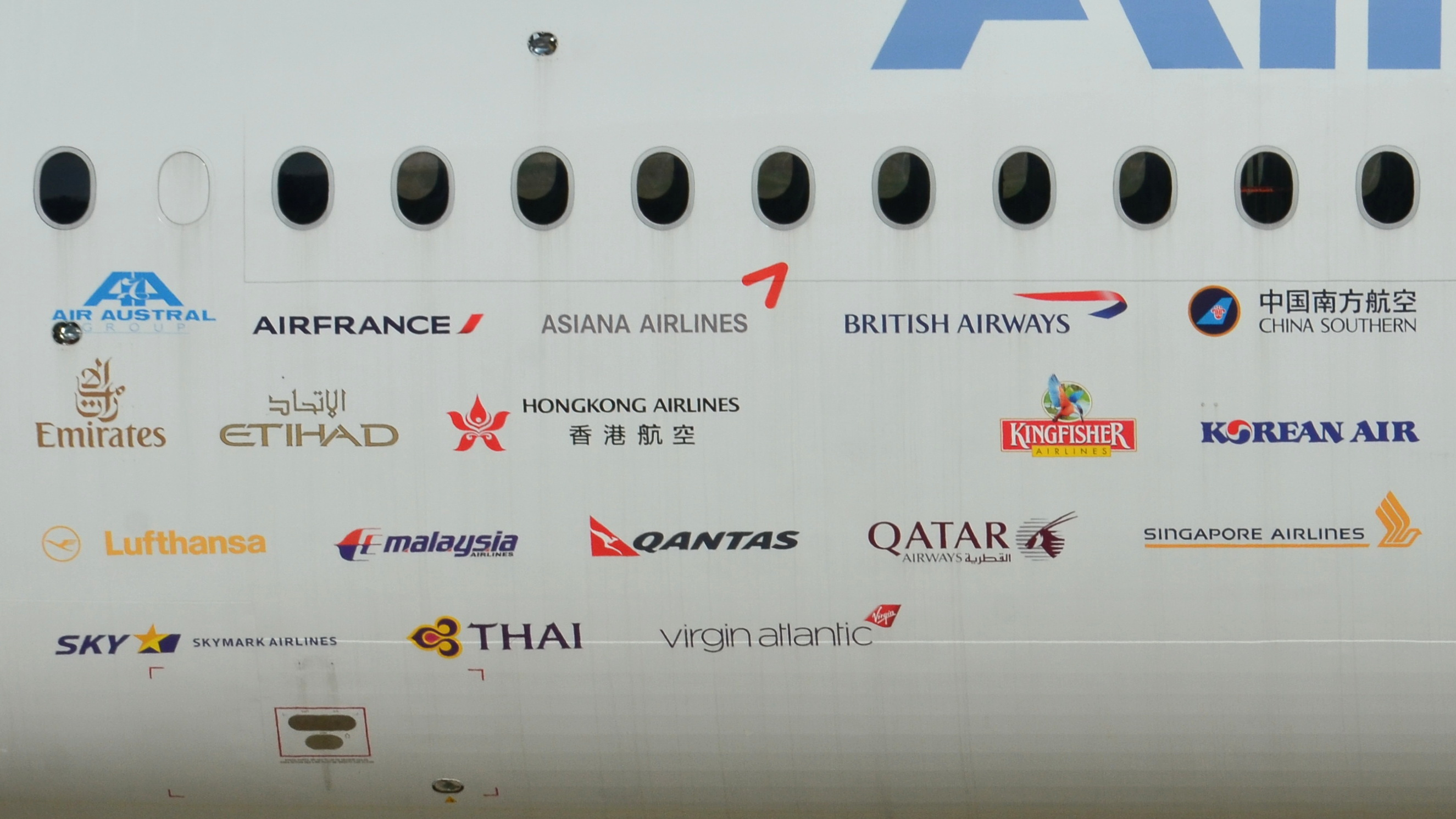 Picture take at Toulouse-Blagnac Airport (LFBO) in France.